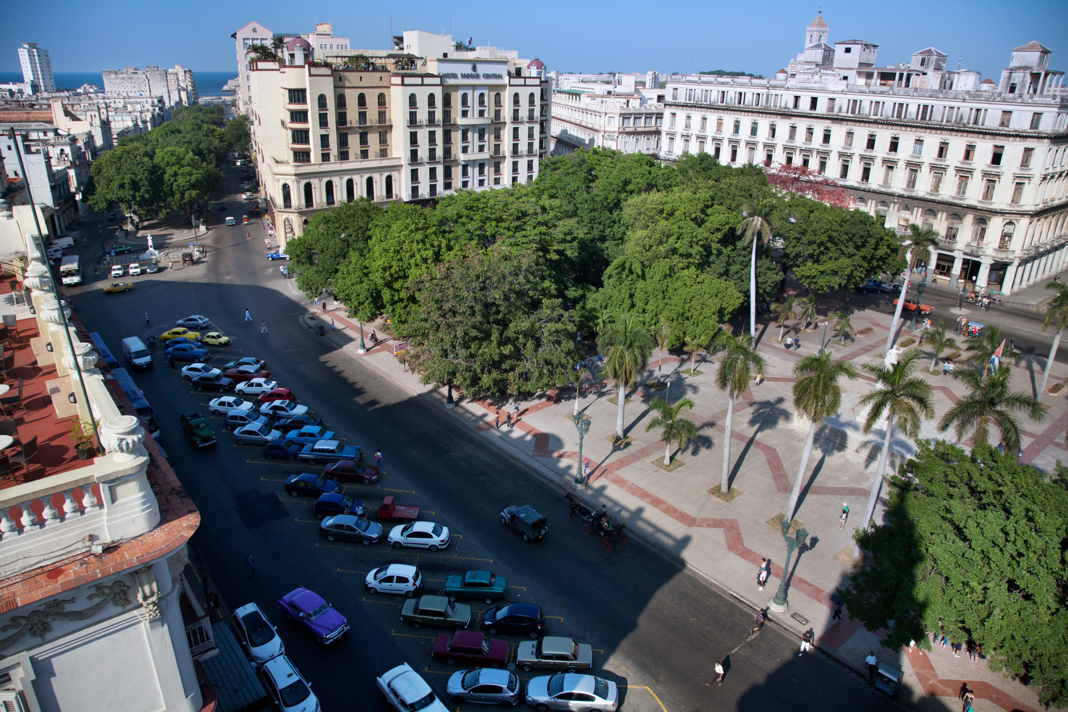 View from the roof of the Teatro Nacional de Cuba to the Parque Central. Havana (La Habana), Cuba